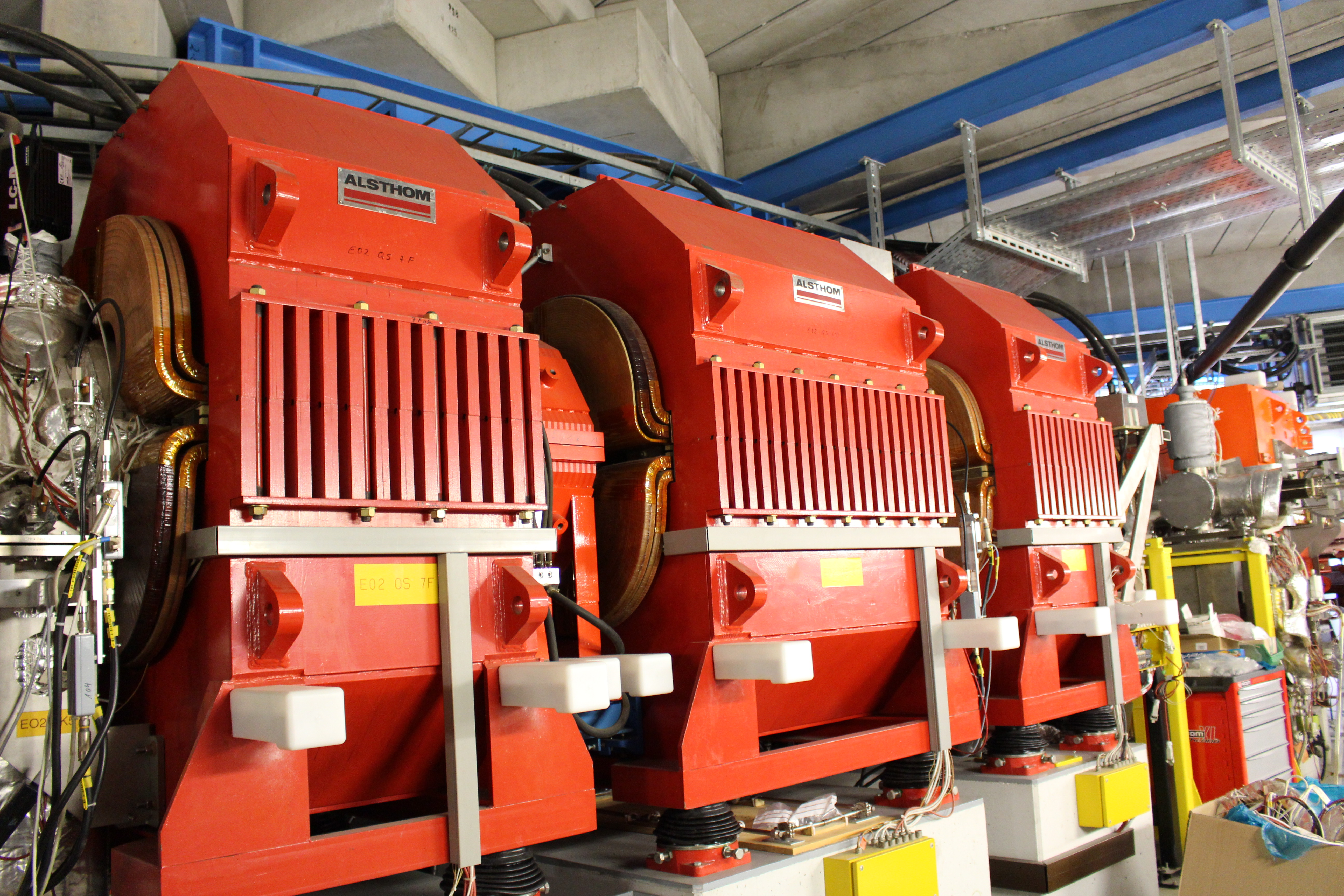 Visit of the GSI Helmholtz Centre for Heavy Ion Research, Darmstadt, Germany.